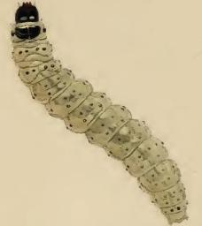 Stainton’s Natural History of the Tineina (1855–1873): Anacampsis scintillella